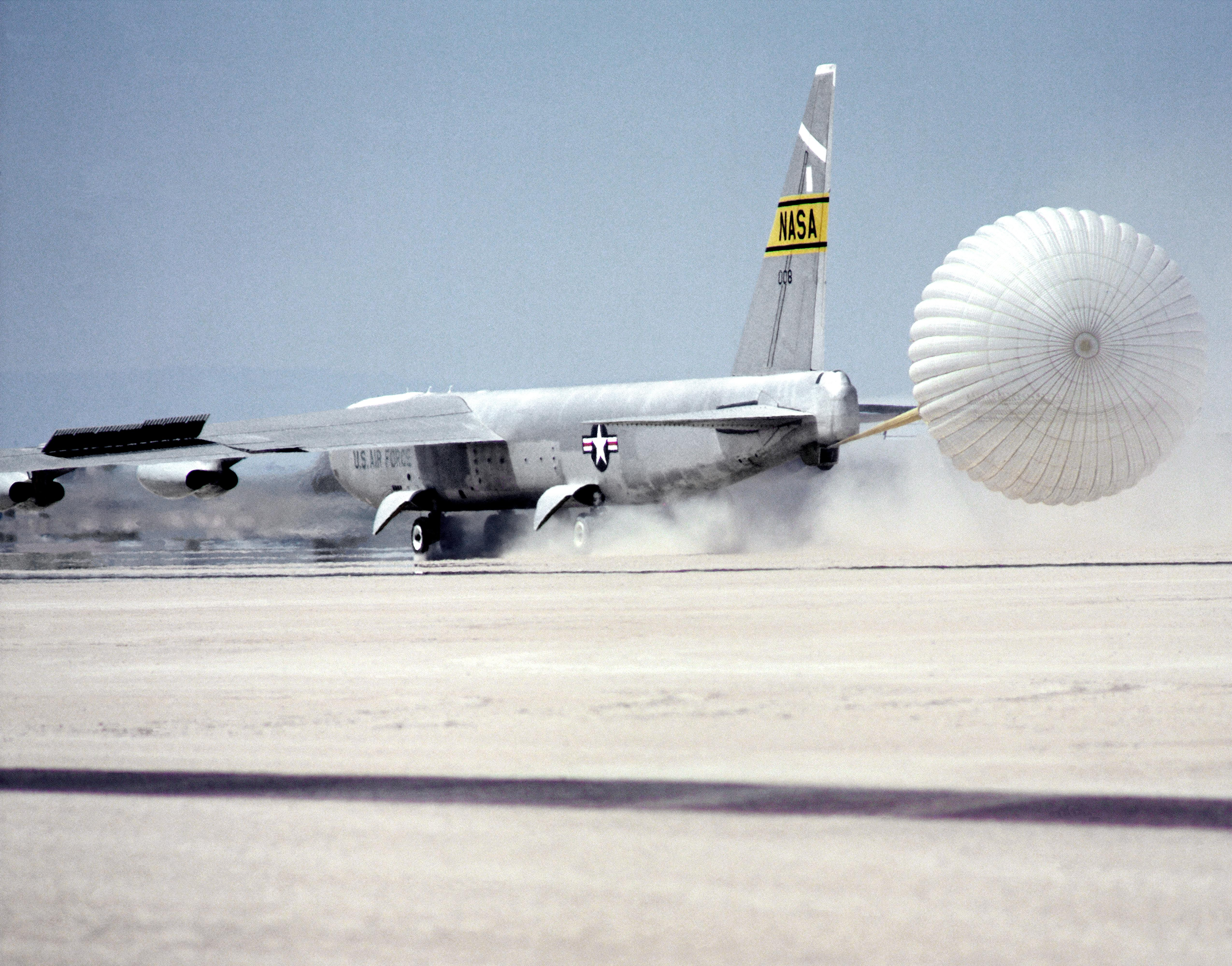 NASA's NB-52B Balls 8 landing at Edwards AFB during an American Space Shuttle drag chute test.